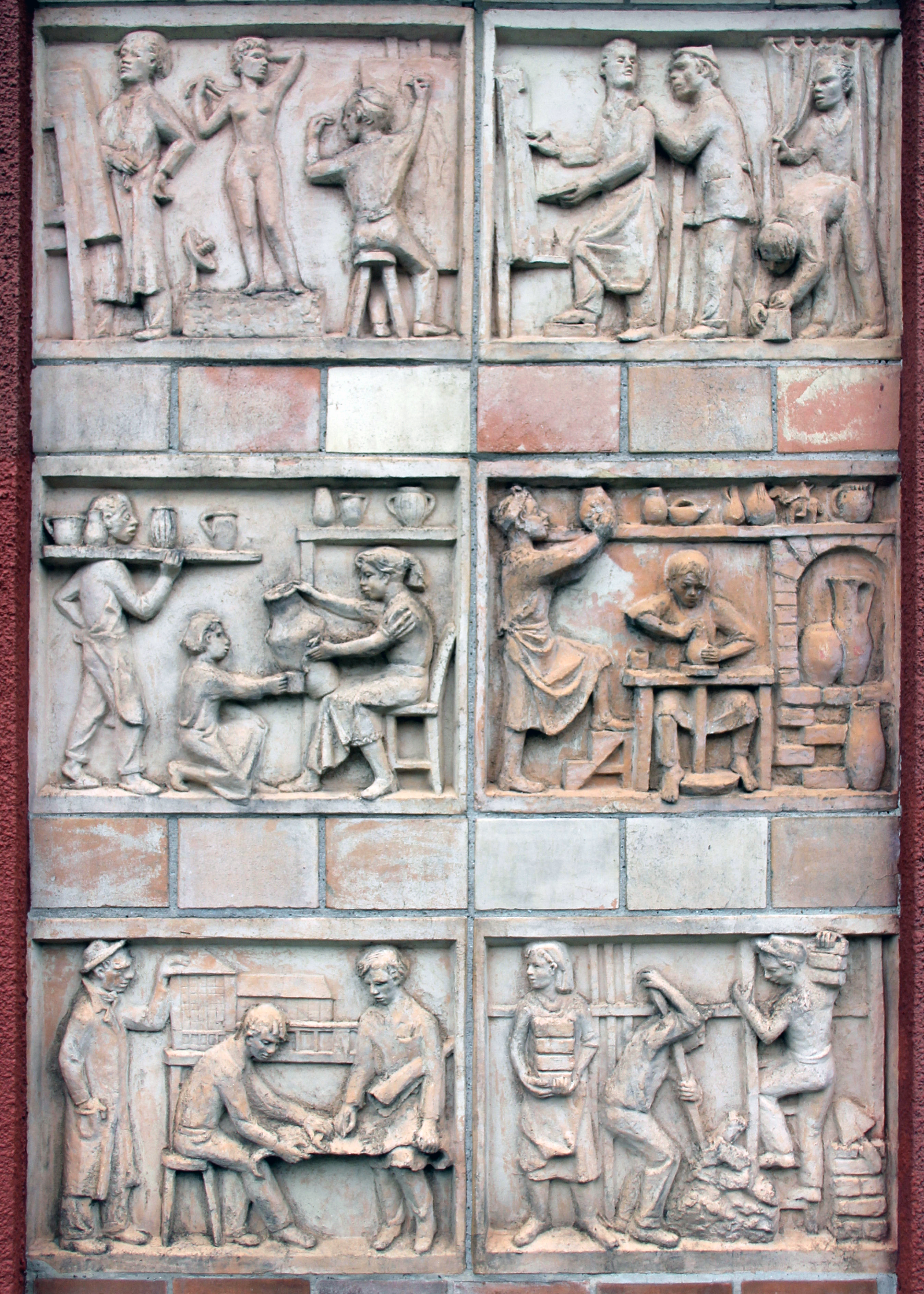 Relief by Toni Mau, Kunsthochschule Berlin-Weißensee, Bühringstraße 20, Berlin-Weißensee, Germany